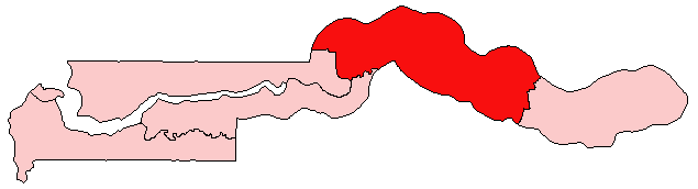 Map of The Gambia showing Central River Division; created with the GIMP. Made by User:Acntx